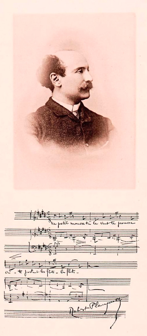 Robert Planquette (31 July 1848 – 28 January 1903), French composer of songs and operettas; album leaf with photo portrait and autograph musical quotation